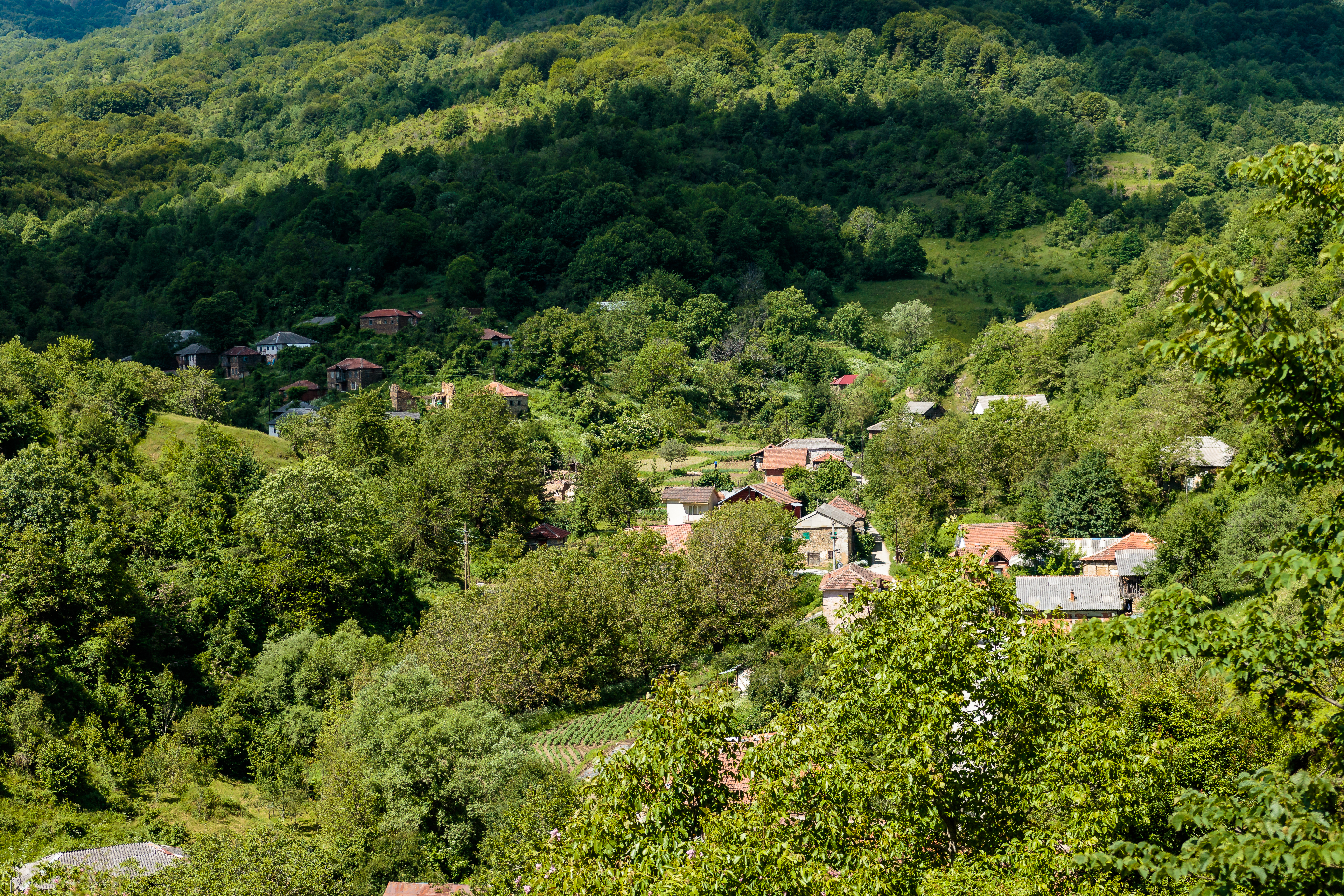 Panoramic view of the village Golemo Ilino